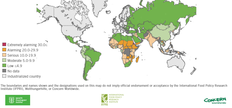 Map presenting the Global Hunger Index 2014